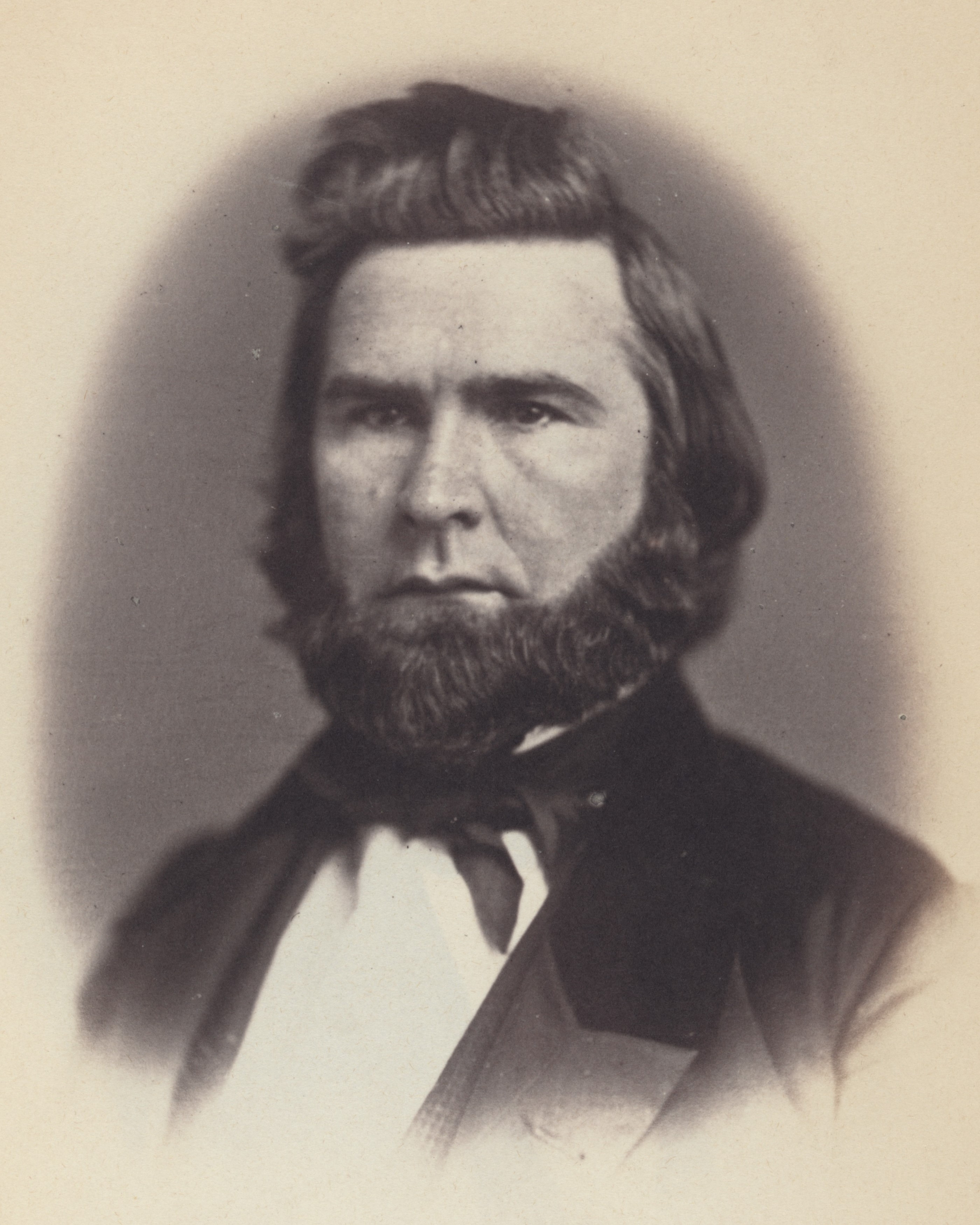 Sidney Dean, US Representative from Connecticut